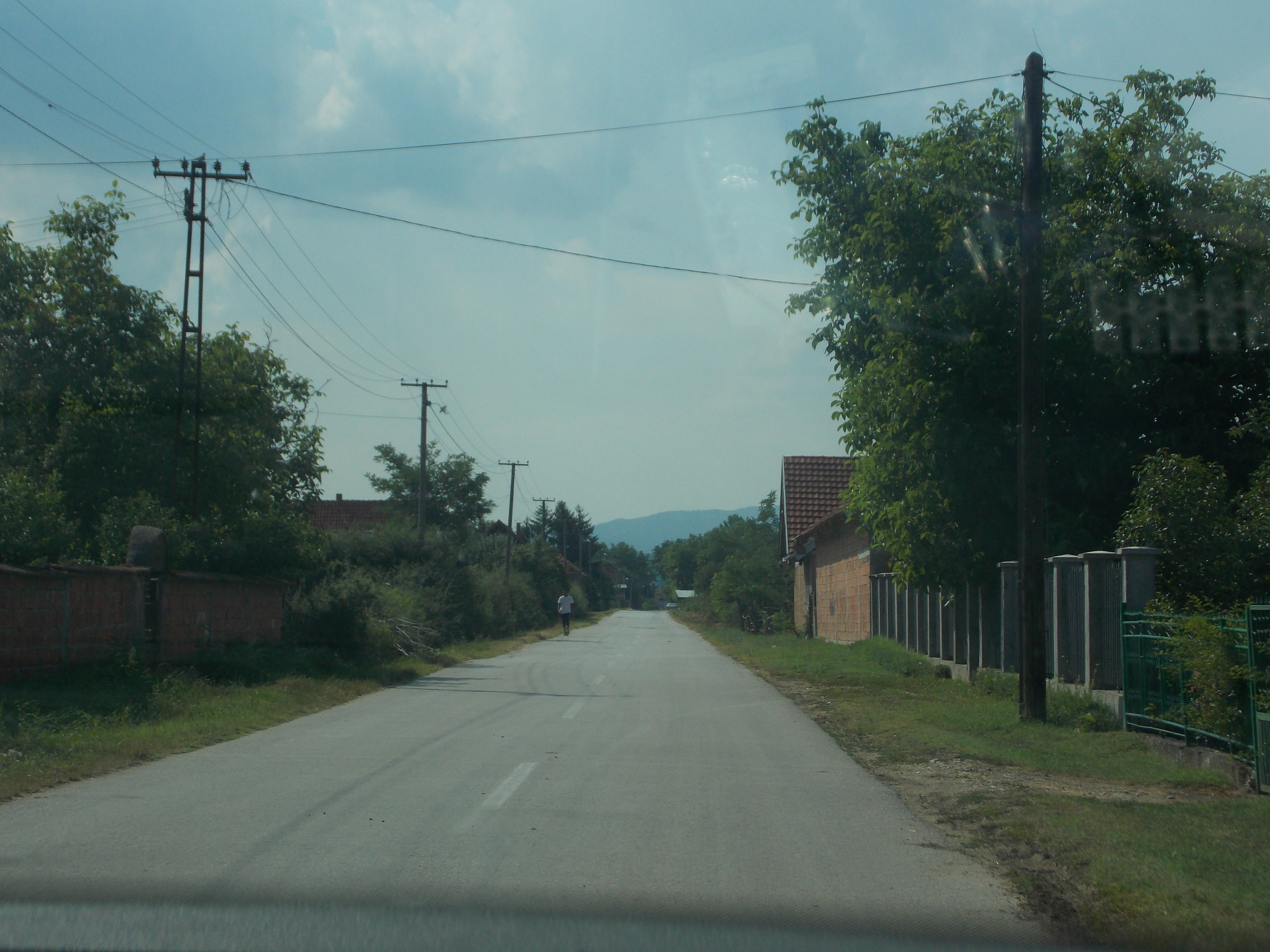 Crkivca Leskovac